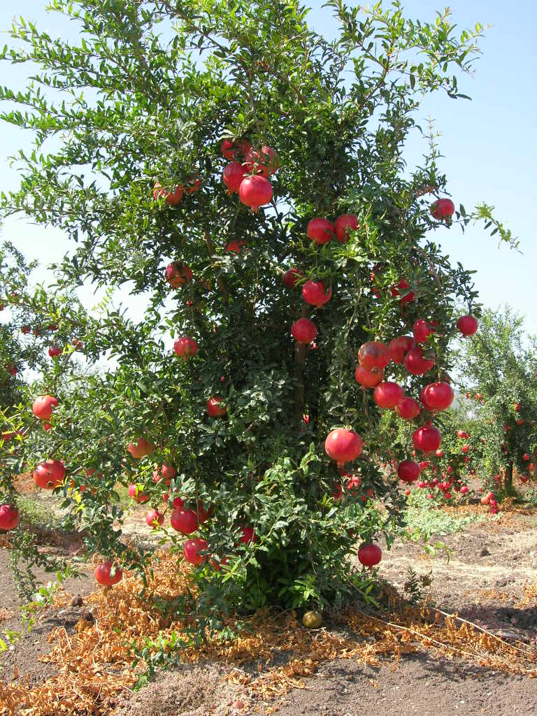 A Pommegranate tree loaded with fruit, an orchard in Sde Ya'akov, Israel.